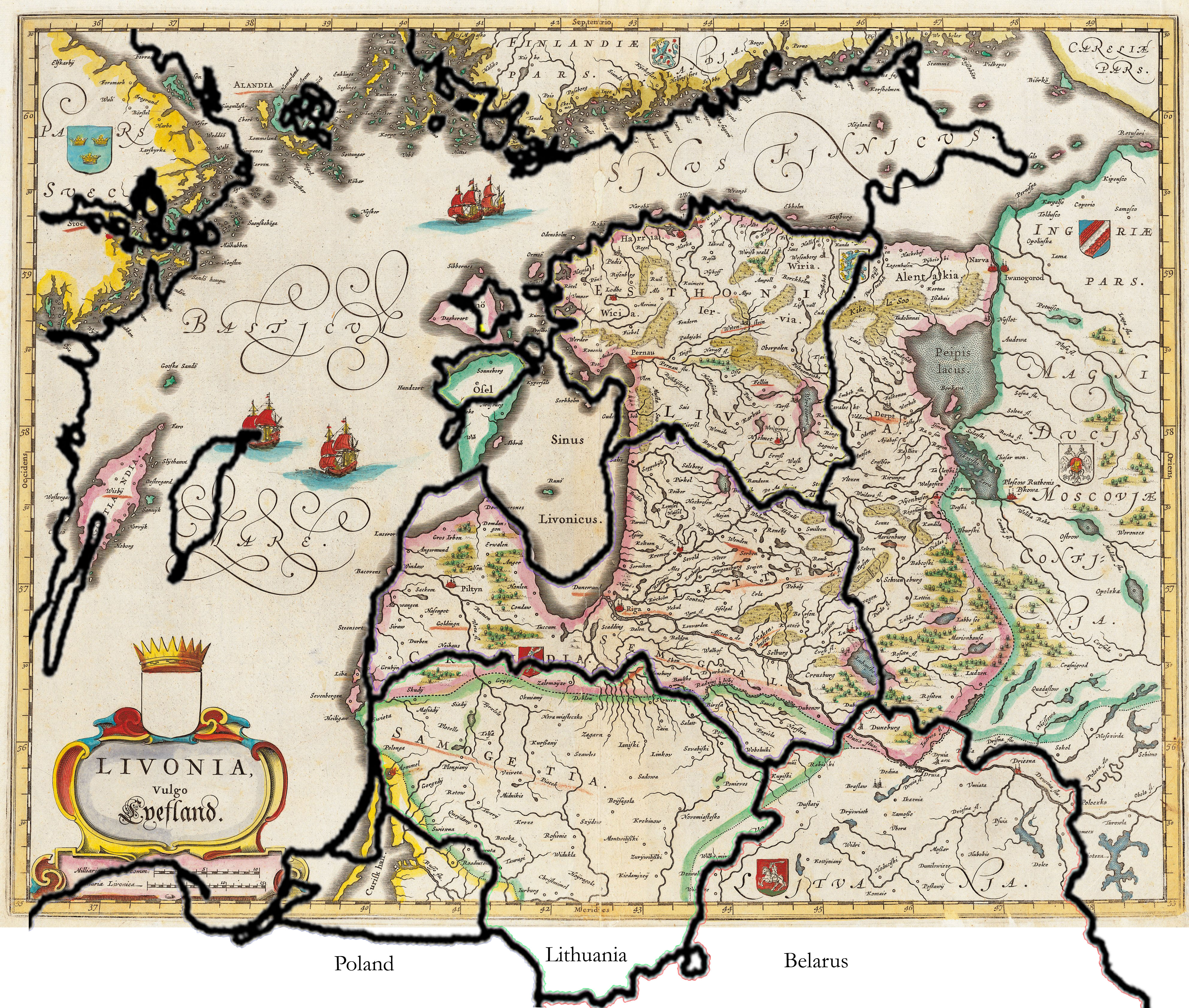 == current borders added